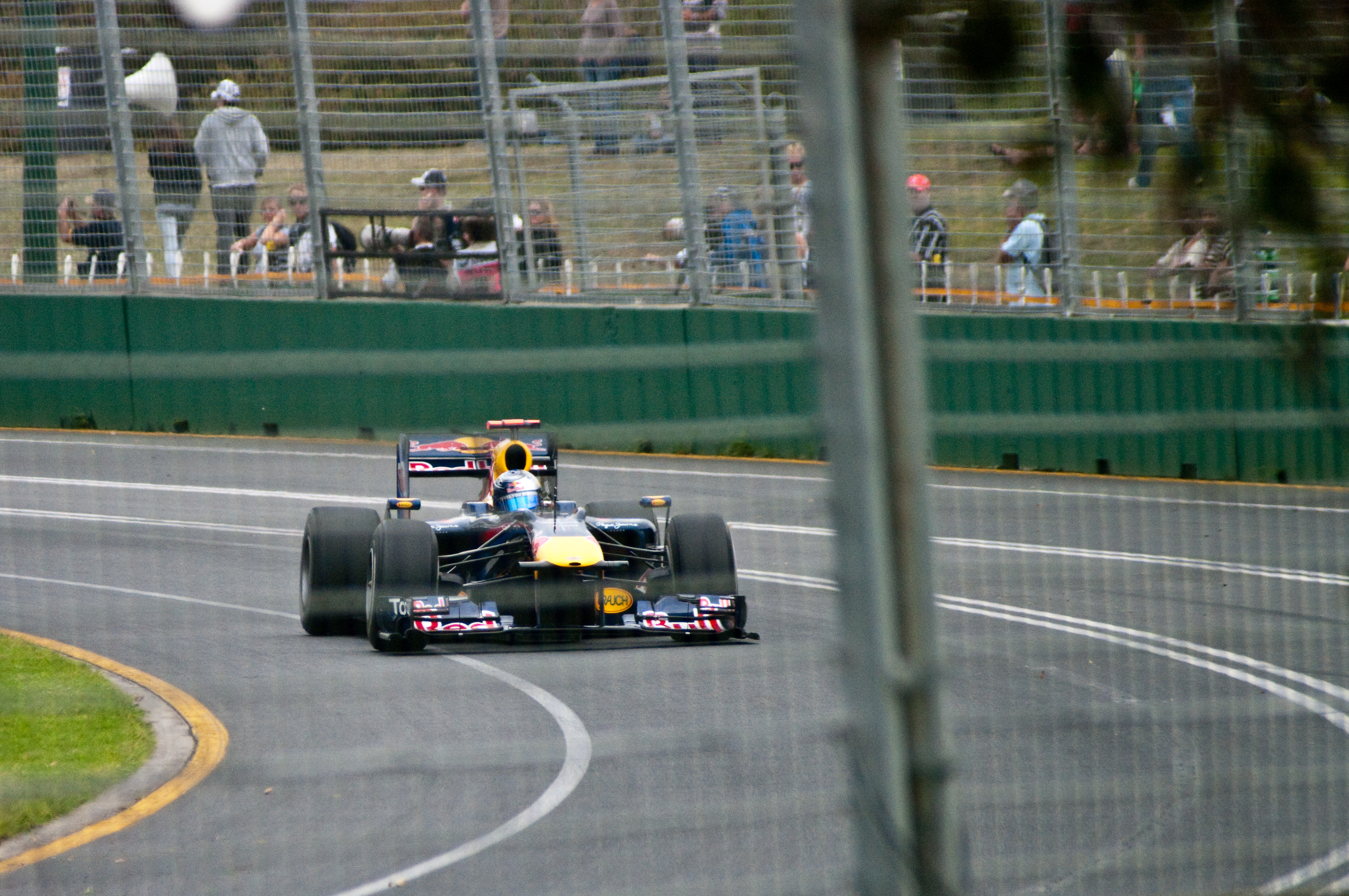 Sebastian Vettel driving for Red Bull Racing at the 2010 Australian Grand Prix.